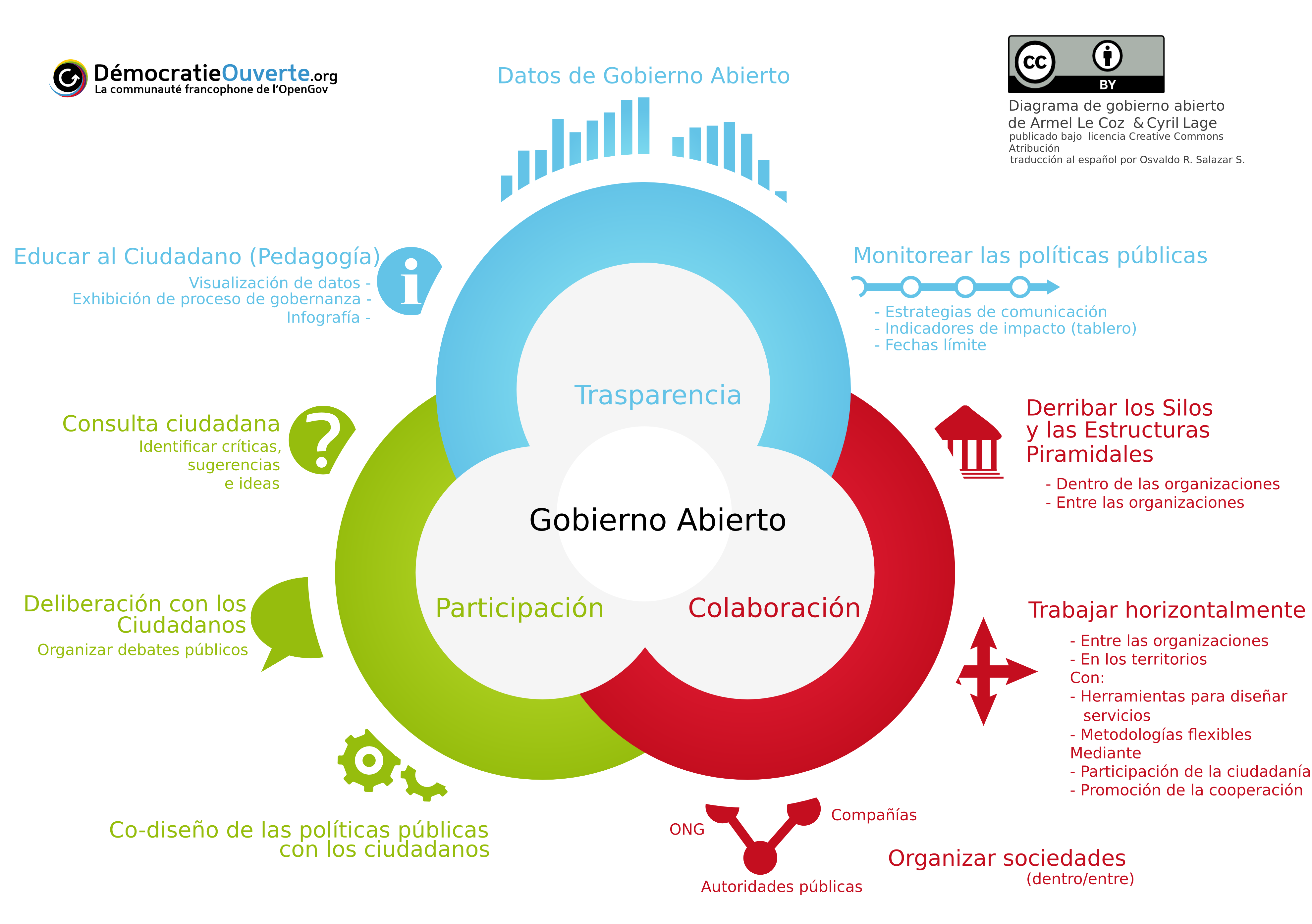 How transparency, collaboration and participation are tied to "open government"